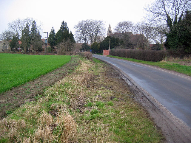 Laxton, East Riding of Yorkshire, England.Heading NW into Laxton which is in the top NW corner of the grid square. To the right of the road is St. Peter's Church.